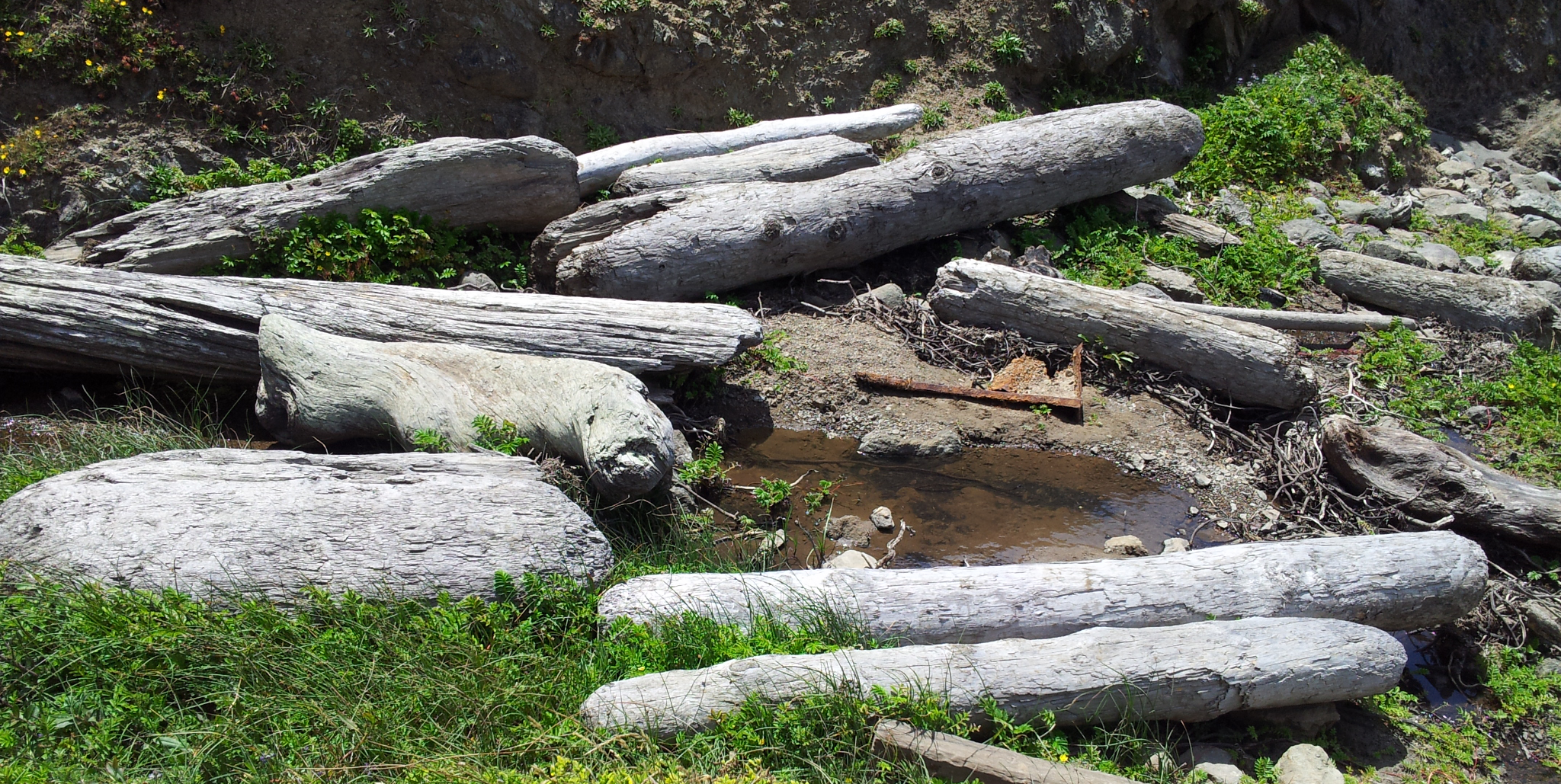 Sequoia sempervirens driftwood in Shorttail Gulch, near Bodega Bay, California. These large diameter logs spent enough time exposed to wave action to round their contours before being driven into the mouth of a narrow ravine by storm surf. Sequoia's high tannin content is resistant to decay, so these logs retain structural strength for decades. Storm flows within the gulch are insufficient to move the logs back to sea. This unique habitat at the mouths of small estuaries of the California coast is threatened by the diminished quantity of large Redwood logs available in flood waters since the logging of aboriginal forests.